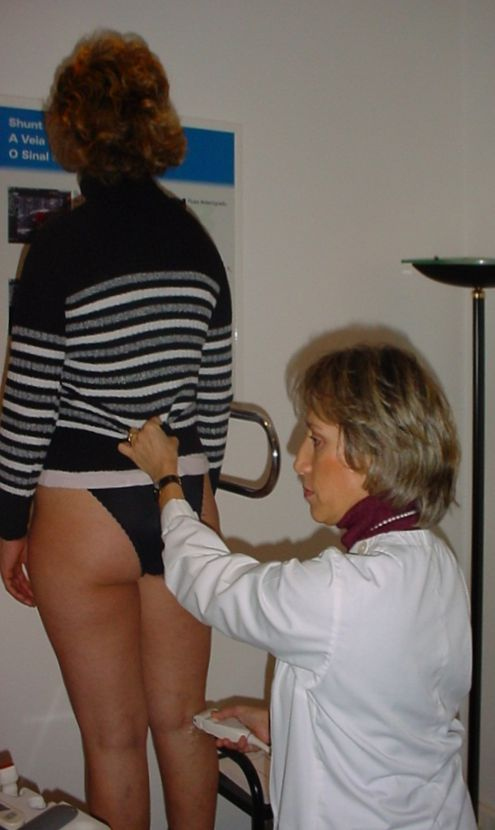 Paraná maneuver: A slight push to the waist line triggers an isometric contraction of the leg muscles, by a proprioceptive reflex, inducing deep vein compression